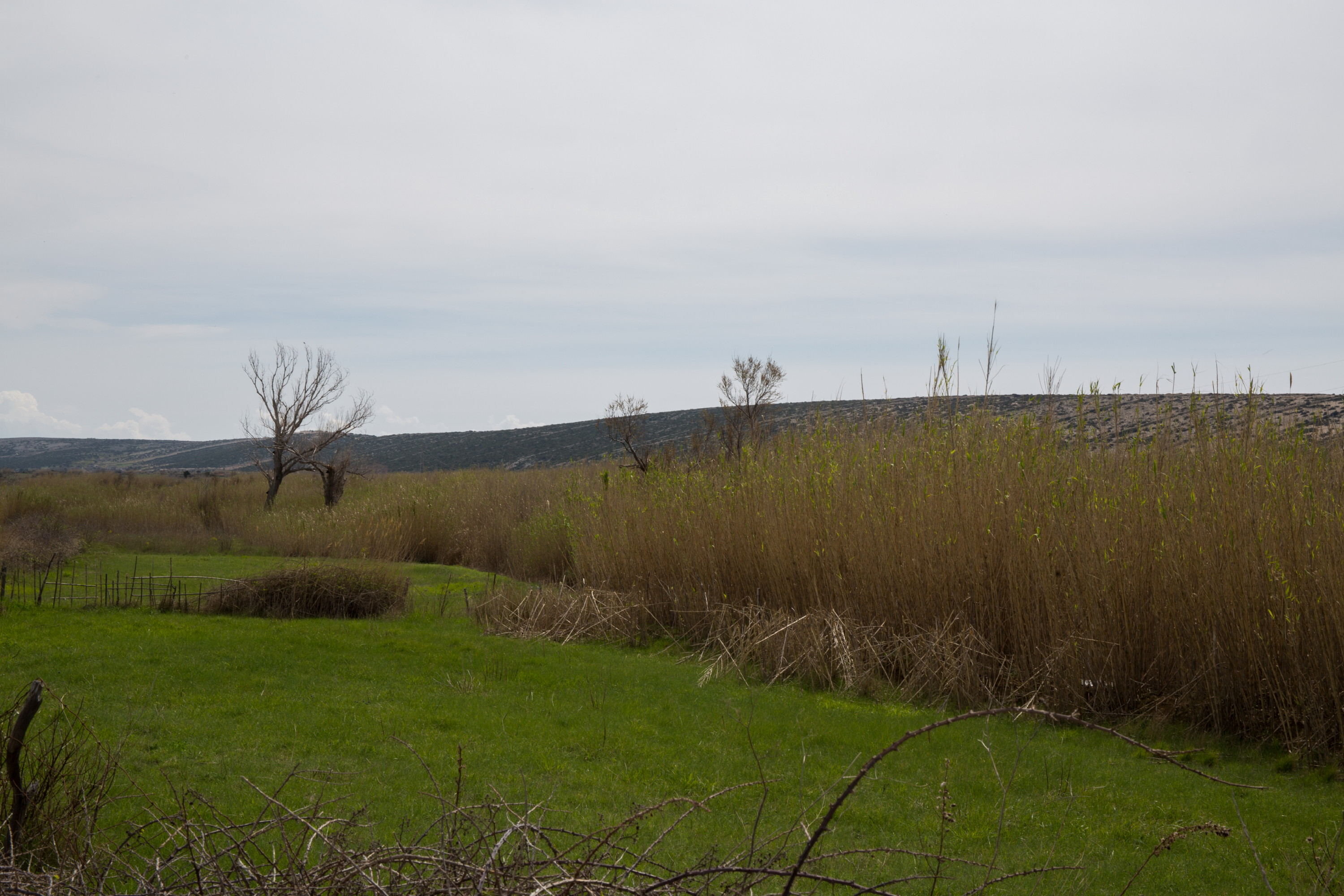 Bird sanctuary Kolansko blato, island of Pag, Croatia